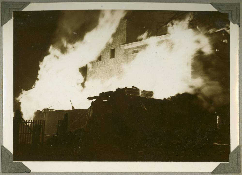 Fire rages at the Millaquin Distillery Bundaberg 1936